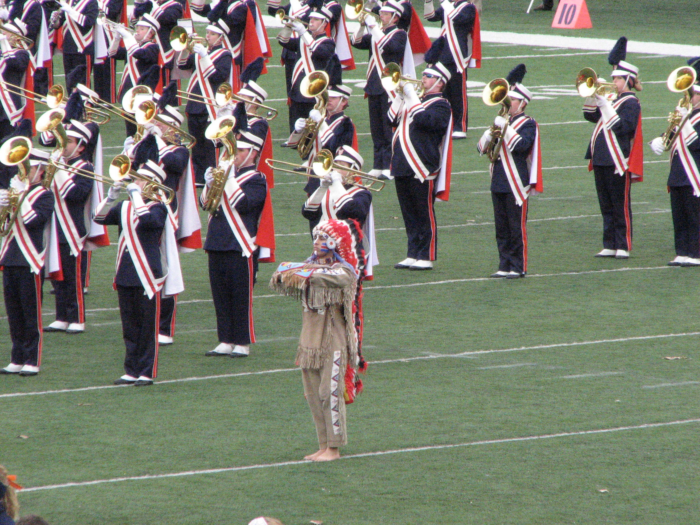 I took these quite some time ago but have uploaded them because of the Chief's retirement. They're noisy pictures, but there aren't that many Chief pics on Flickr. See also: Test your Chief Illiniwek IQ Native American House at U of I responds to removal of Chief “chief illiniwek”: Only a Dancing Turkey or Federal Criminal? My illiniwek picture that's on Wikipedia